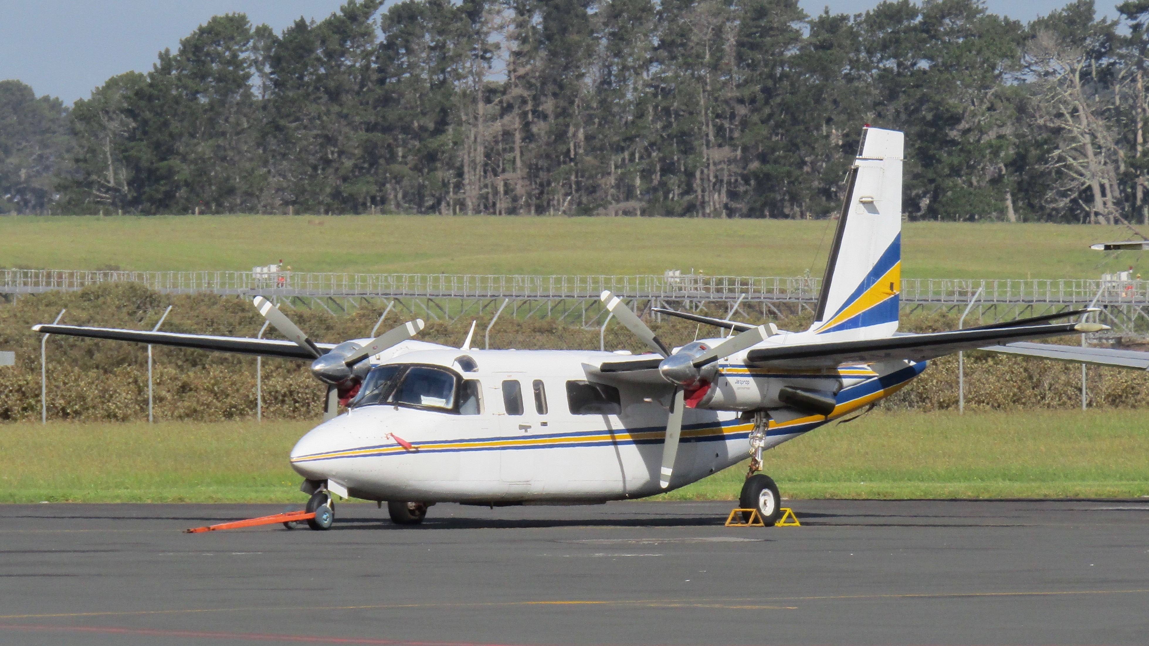 ZK-PVB, the Air Chathams operated and owned Aero Commander 690A often leased out for Aerial Mapping. Seen here at Auckland Airport on the Air Chathams ramp.